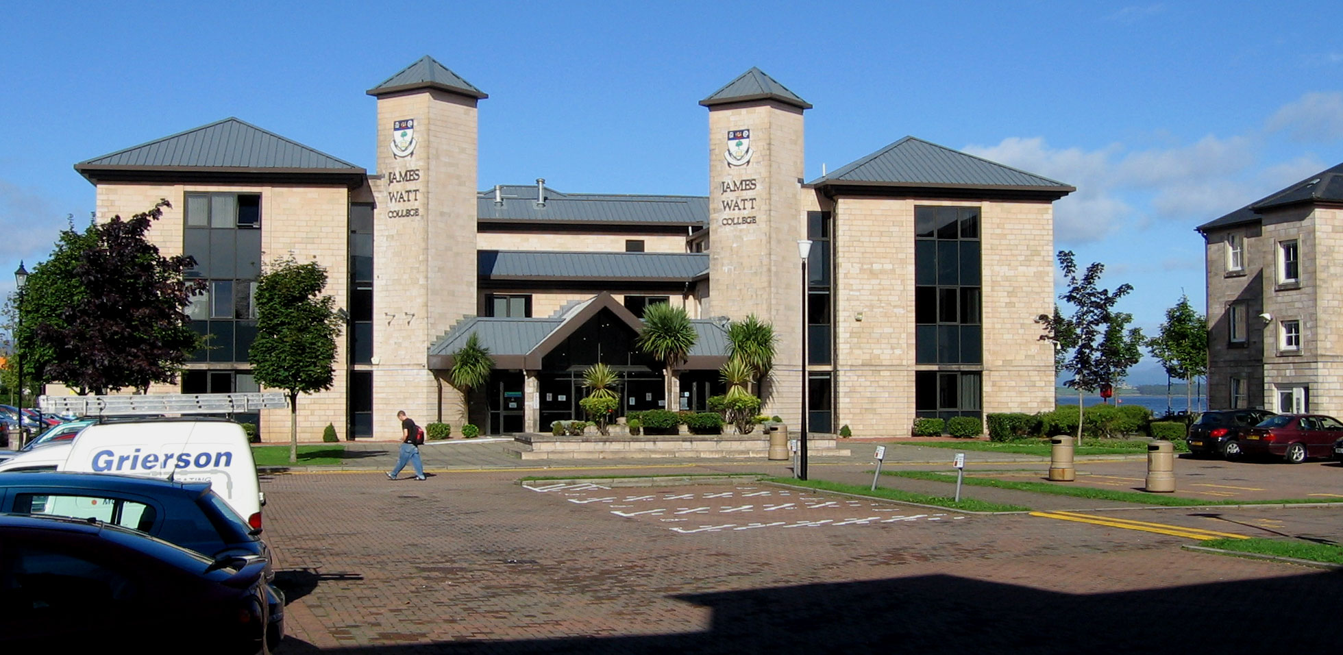 The James Watt College Waterfront Campus, Greenock in Scotland, with a glimpse of the Firth of Clyde and residences to the right.